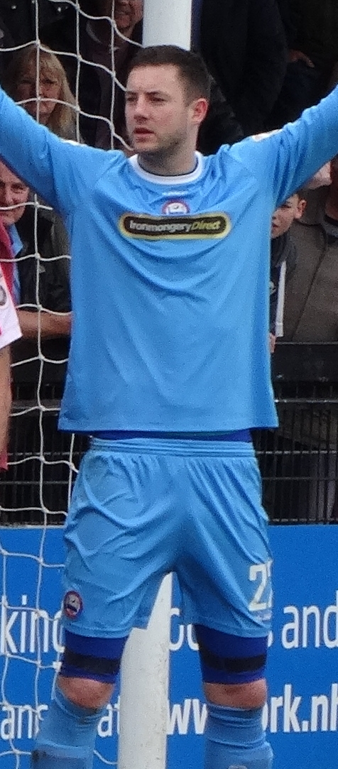 Sam Beasant playing for Braintree Town against York City at Bootham Crescent, York on 1 April 2017